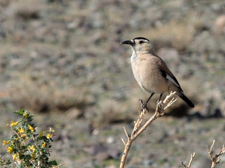 Podoces hendersoni in North-west Mongolia